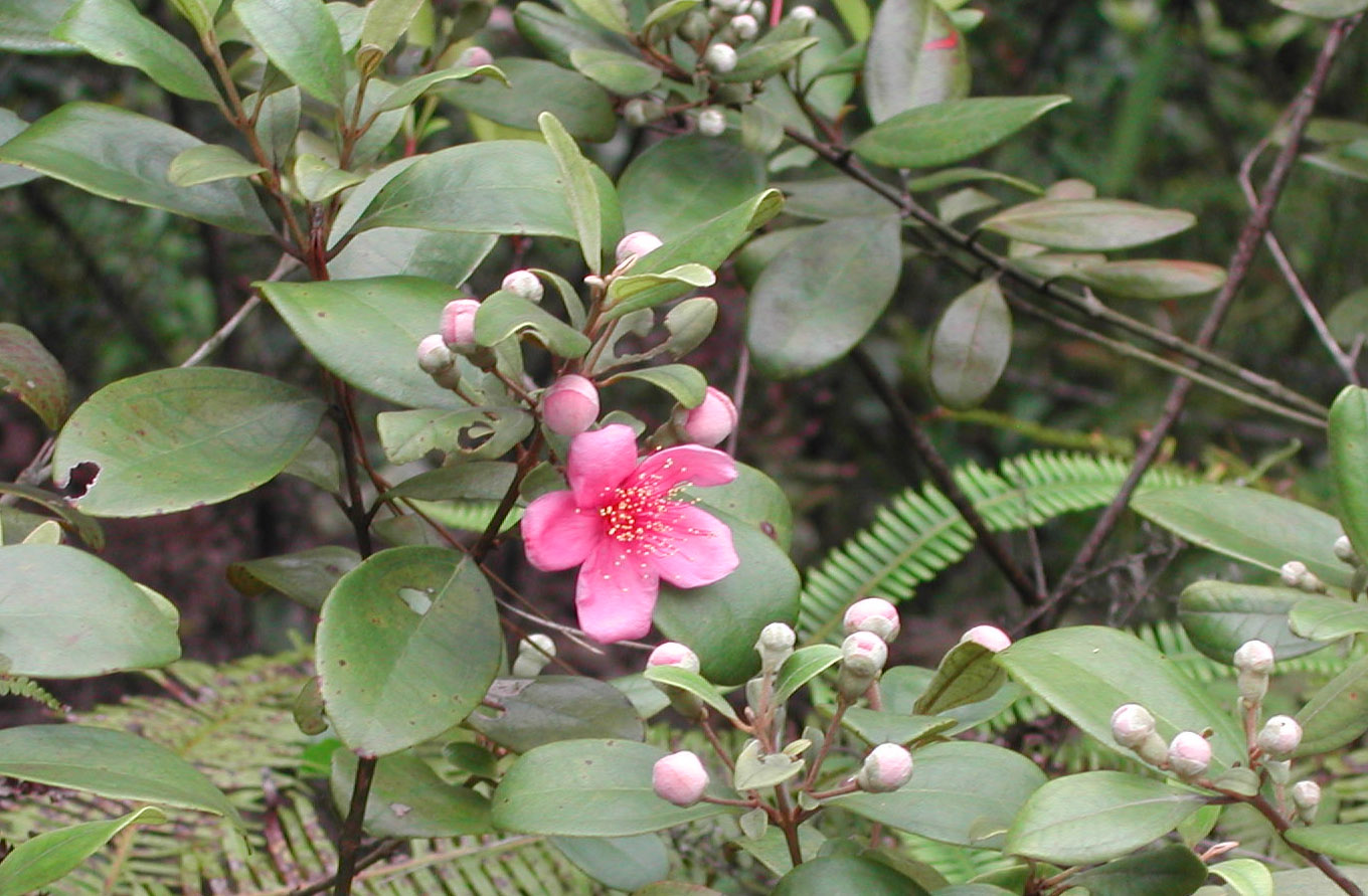 Photo taken in Hong Kong Rhodomyrtus tomentosa found on a hill side in Hong Kong